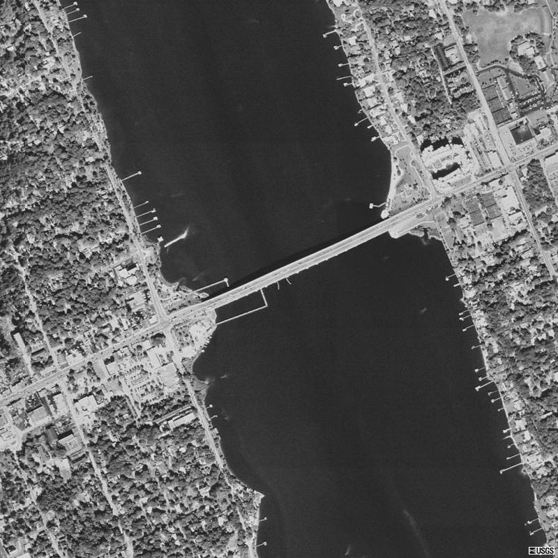 Aerial image of Granada Bridge, Ormond Beach, Volusia County, Florida, United States.